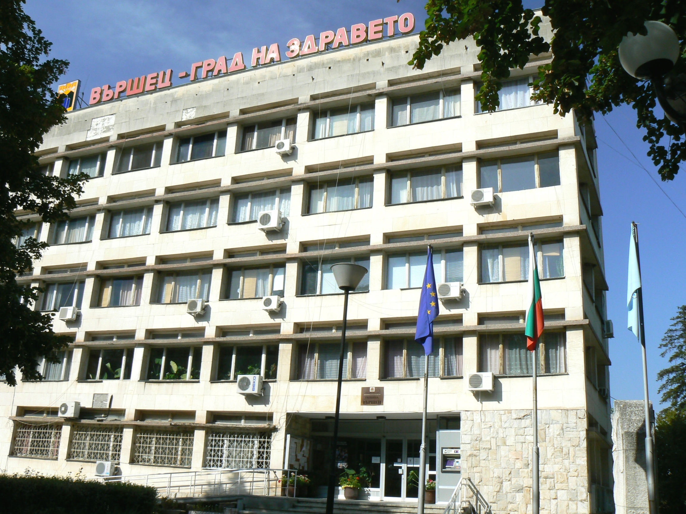 The building of Varshets municipality, Bulgaria